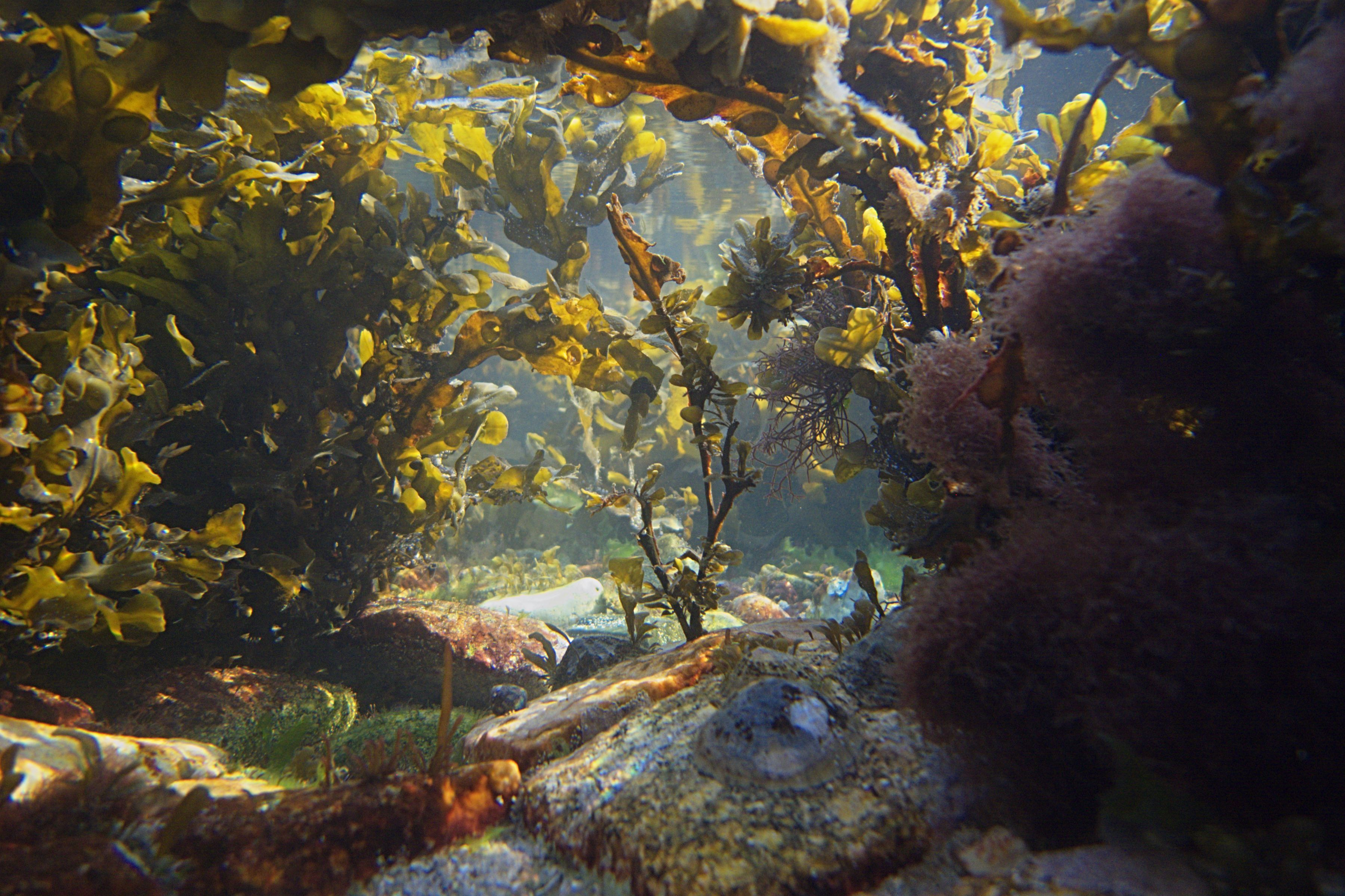 Bladder wrack (Fucus vesiculosus) growing in the intertidal zone near Roscoff